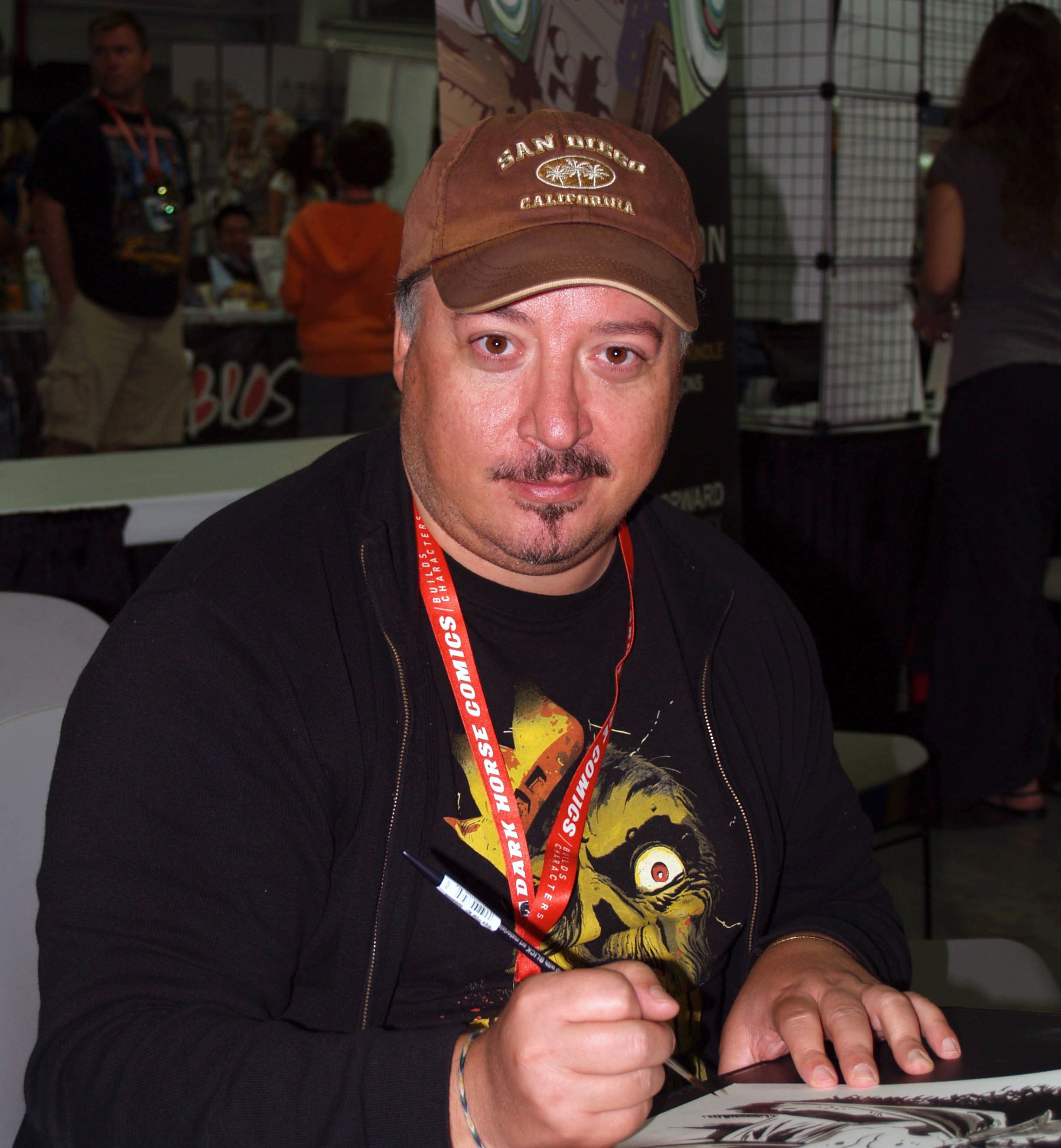 Comics creator Francesco Francavilla on Saturday, June 14, 2014, Day 1 of Special Edition NYC, a comic book convention at the Jacob K. Javits Convention Center in Manhattan. This photo was created by Luigi Novi. It is not in the public domain, and use of this file outside of the licensing terms is a copyright violation.